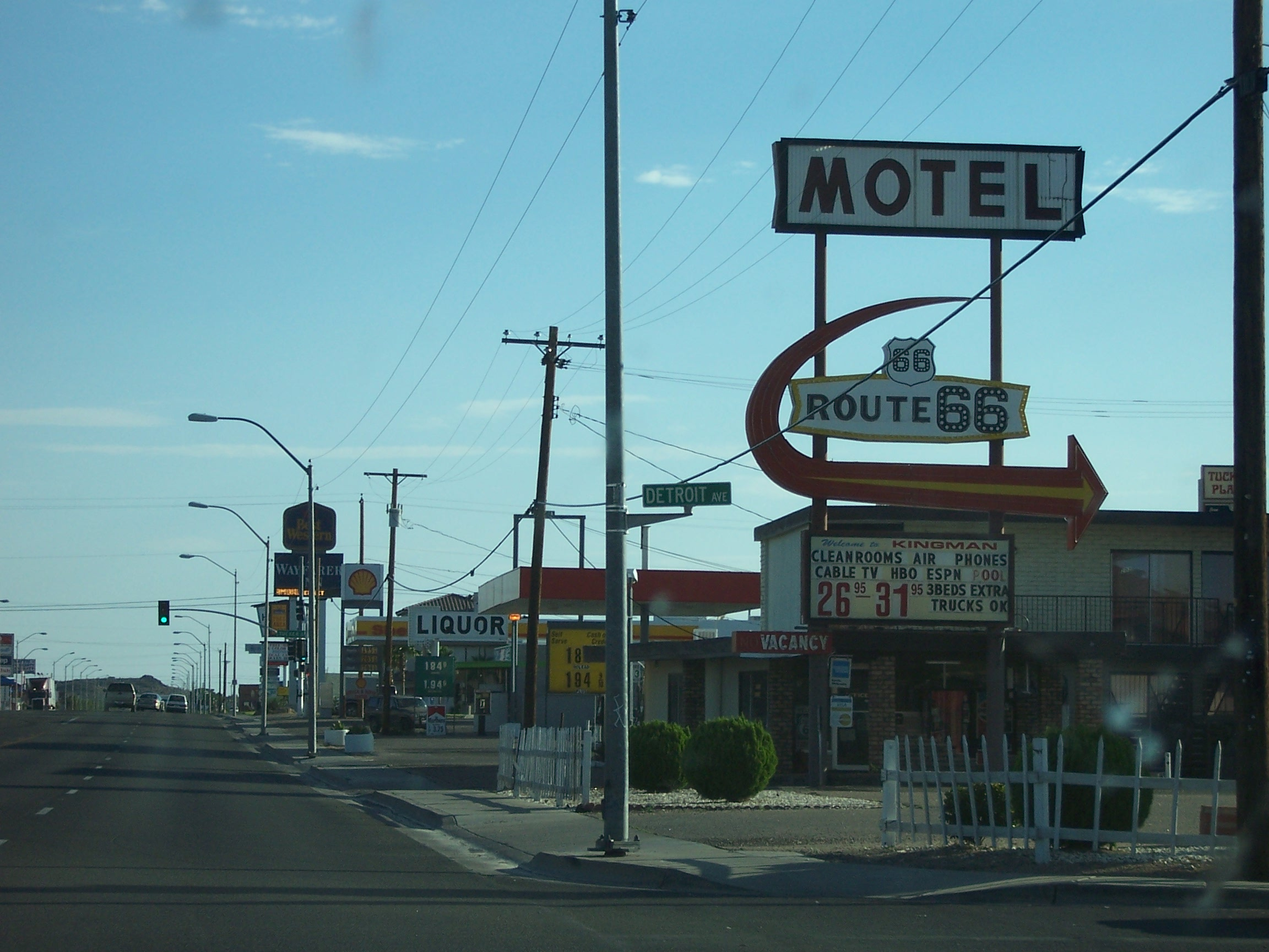 Old U.S. Route 66 motel strip, located in Kingman, Arizona.